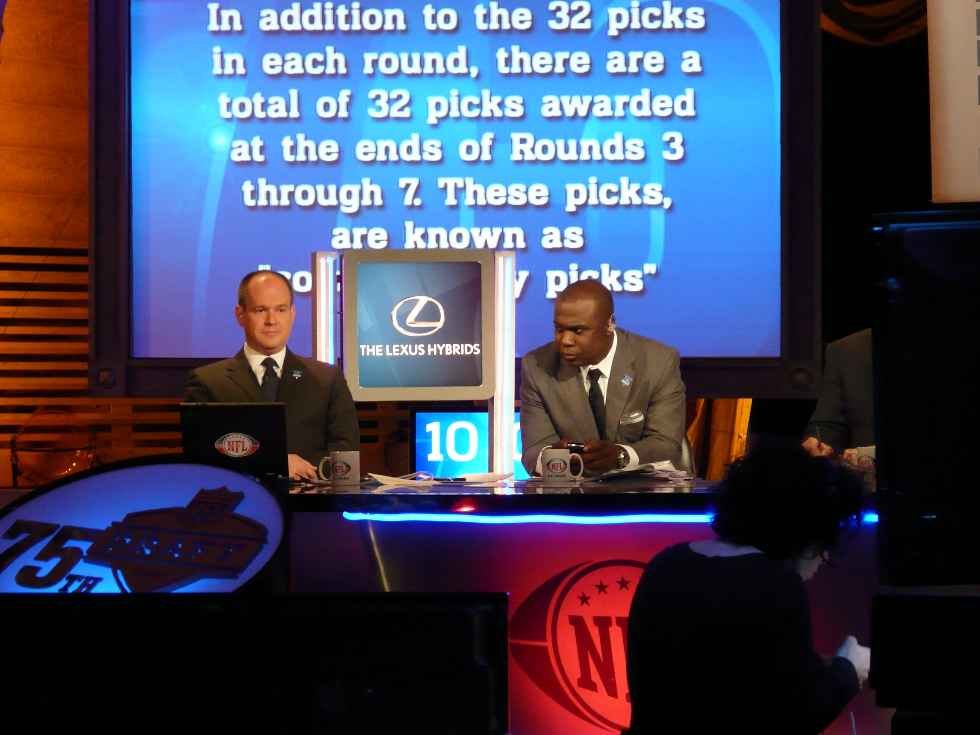 Rich Eisen and Marshall Faulk on NFL Network's set for the 2010 NFL Draft broadcast.